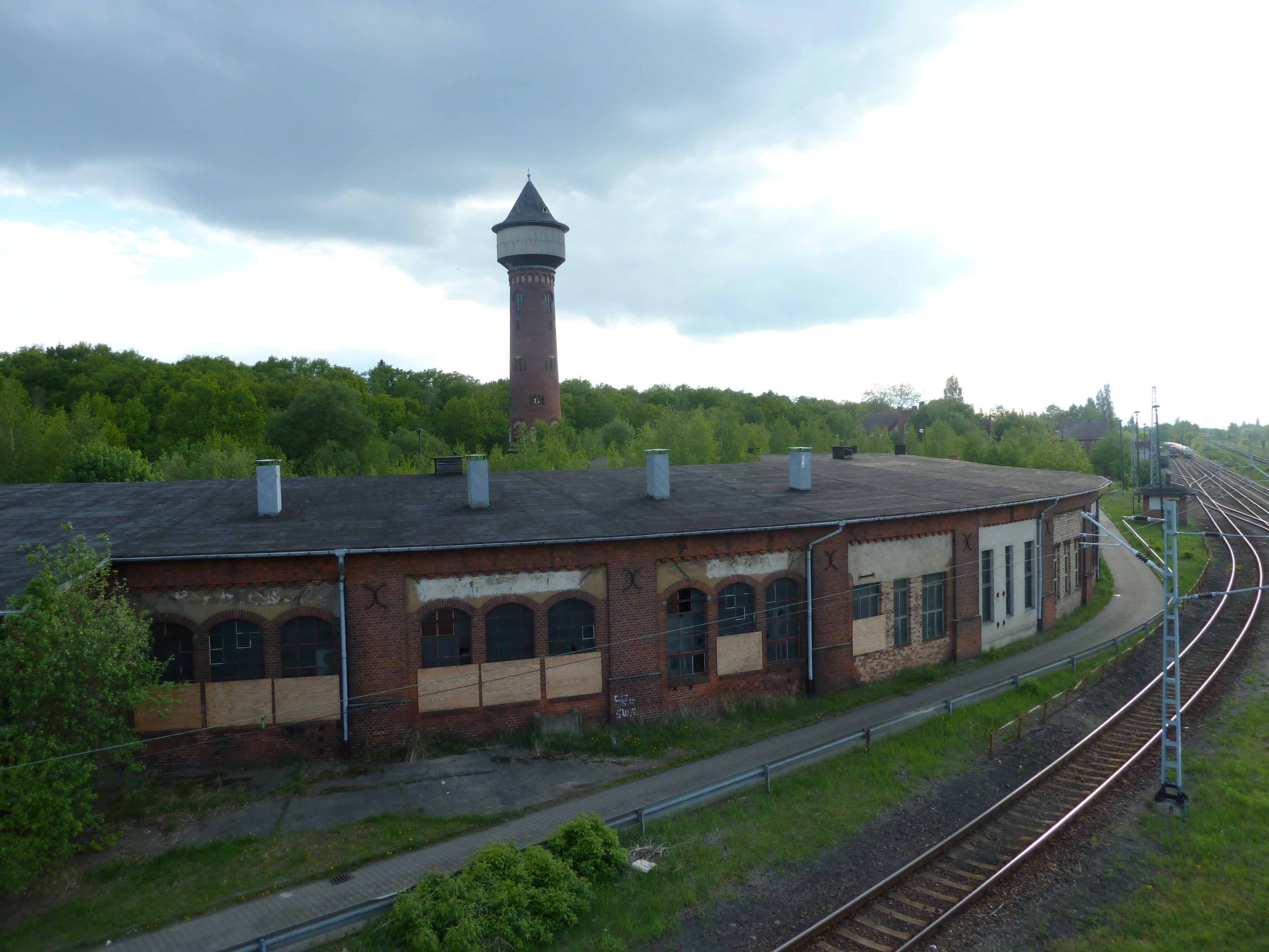 Wustermark Rangierbahnhof, water tower + shed